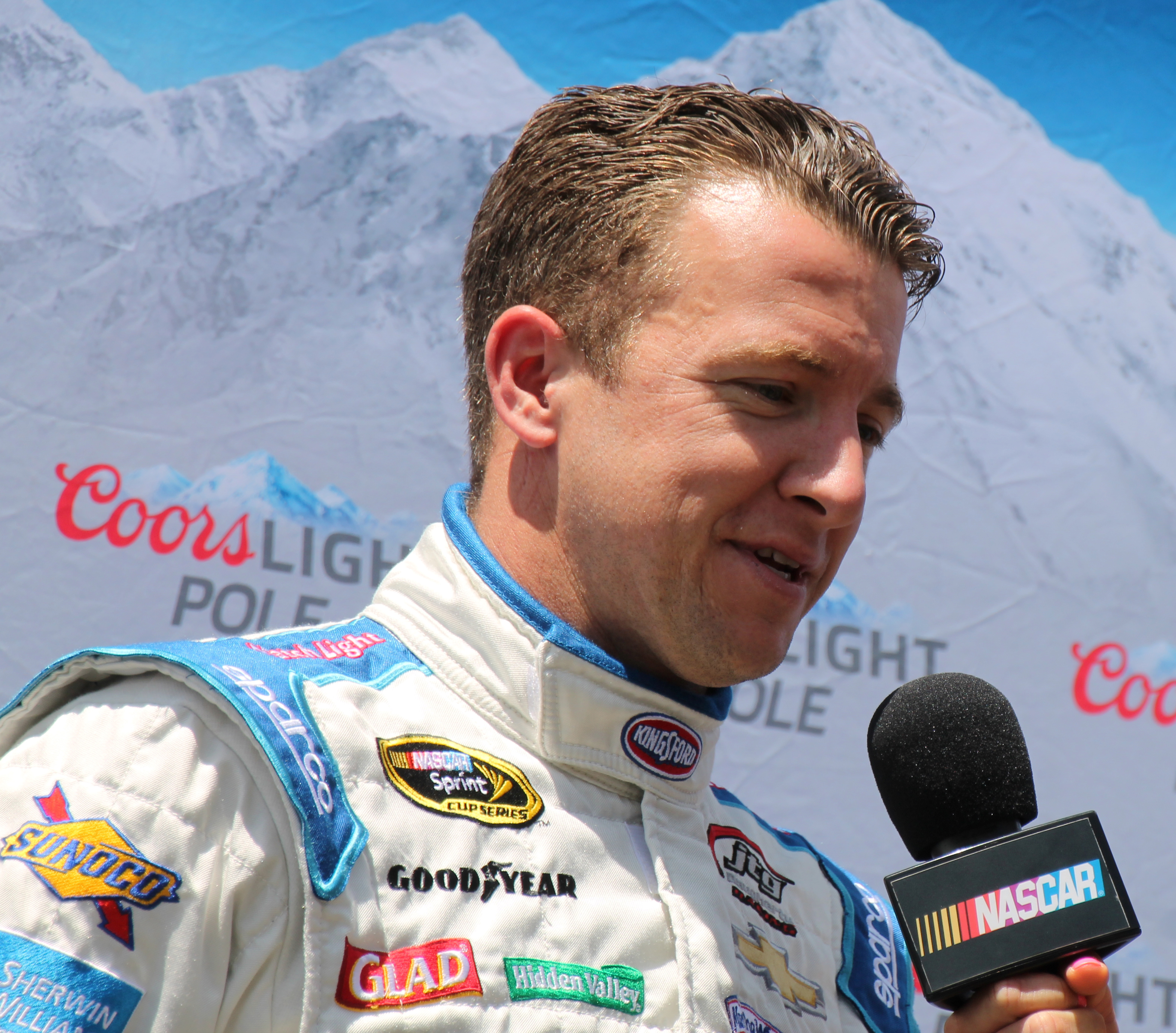 AJ Allmendinger after taking the pole at qualifications at the 2015 Toyota/Save Mart 350, Sonoma California